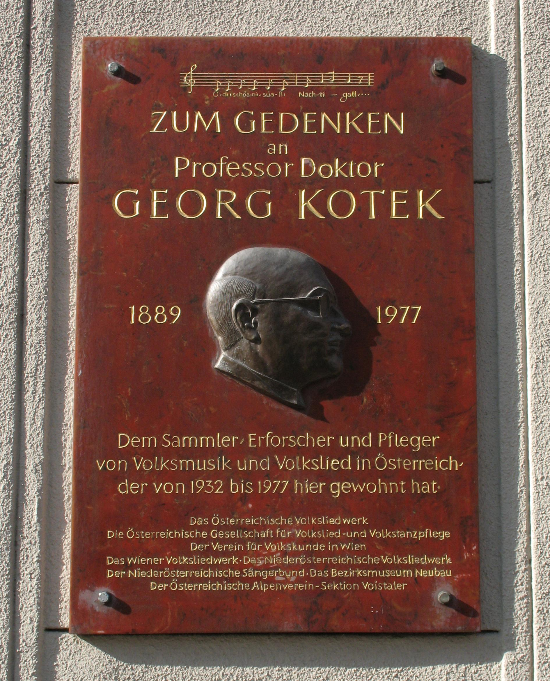 Memorial tablet for Georg Kotek in Vienna, Austria